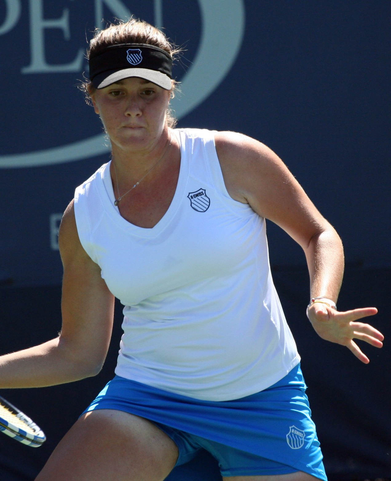 U.S. Open Juniors Sept. 5, 2010